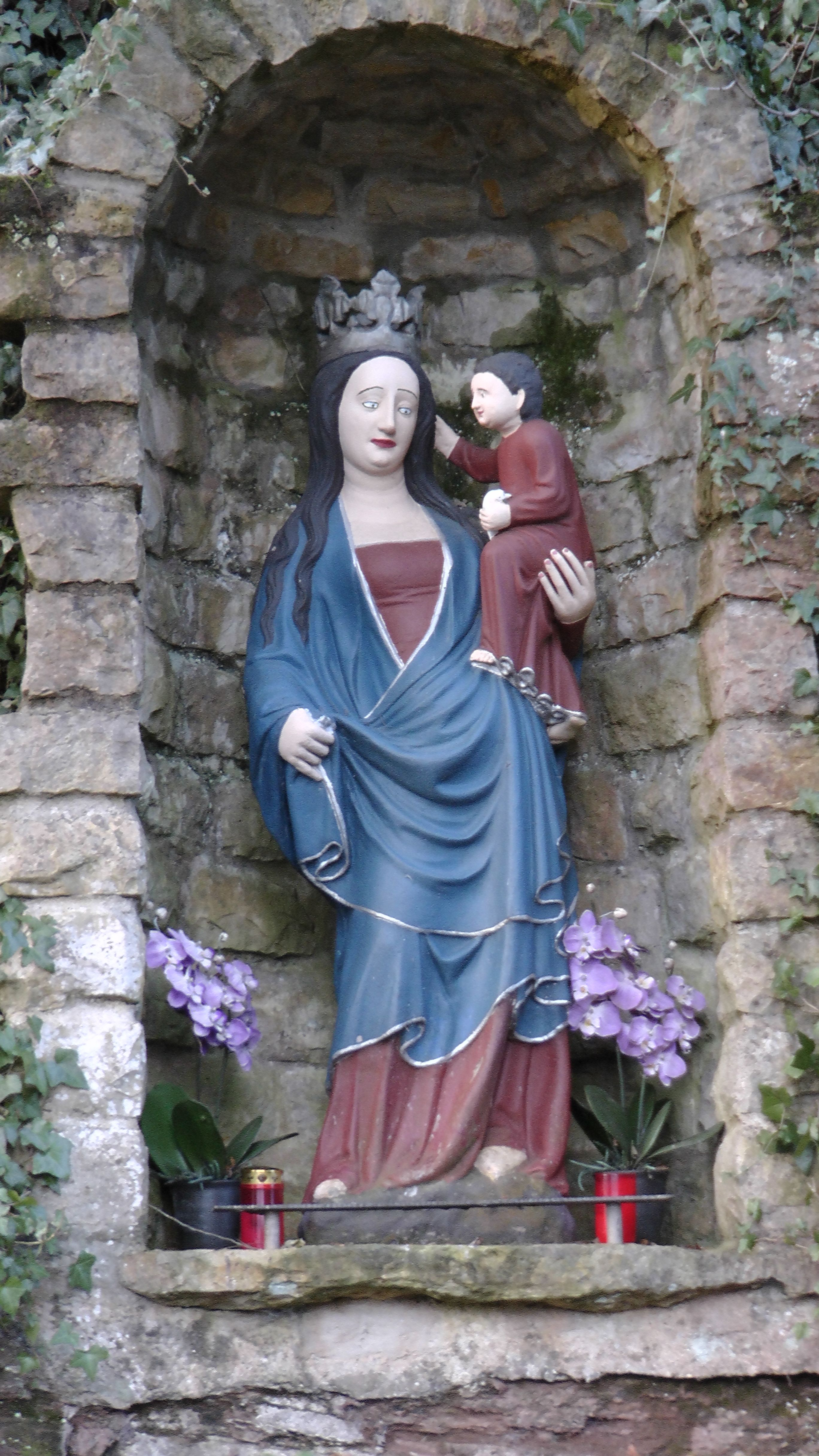 Trier Euren St. Mary's grotto